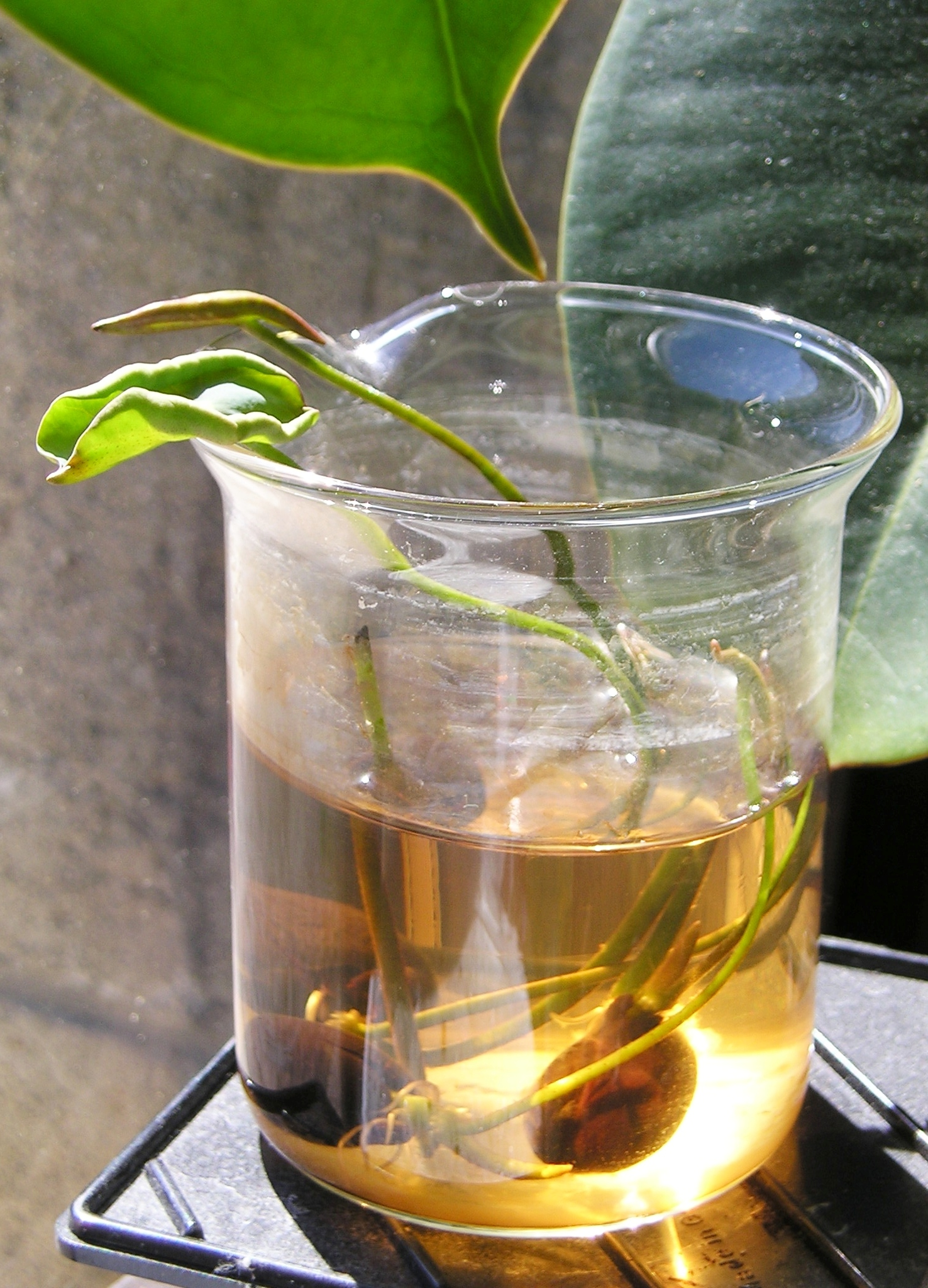 Archivbild 2005-2009 Creative Commons Licence BY 2.0 Quellenangabe / Credit: Photo by Maja Dumat